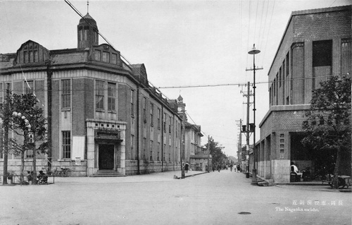 Postcard of around the Nagaoka City Office. Left building is Nagaoka City Office (second).